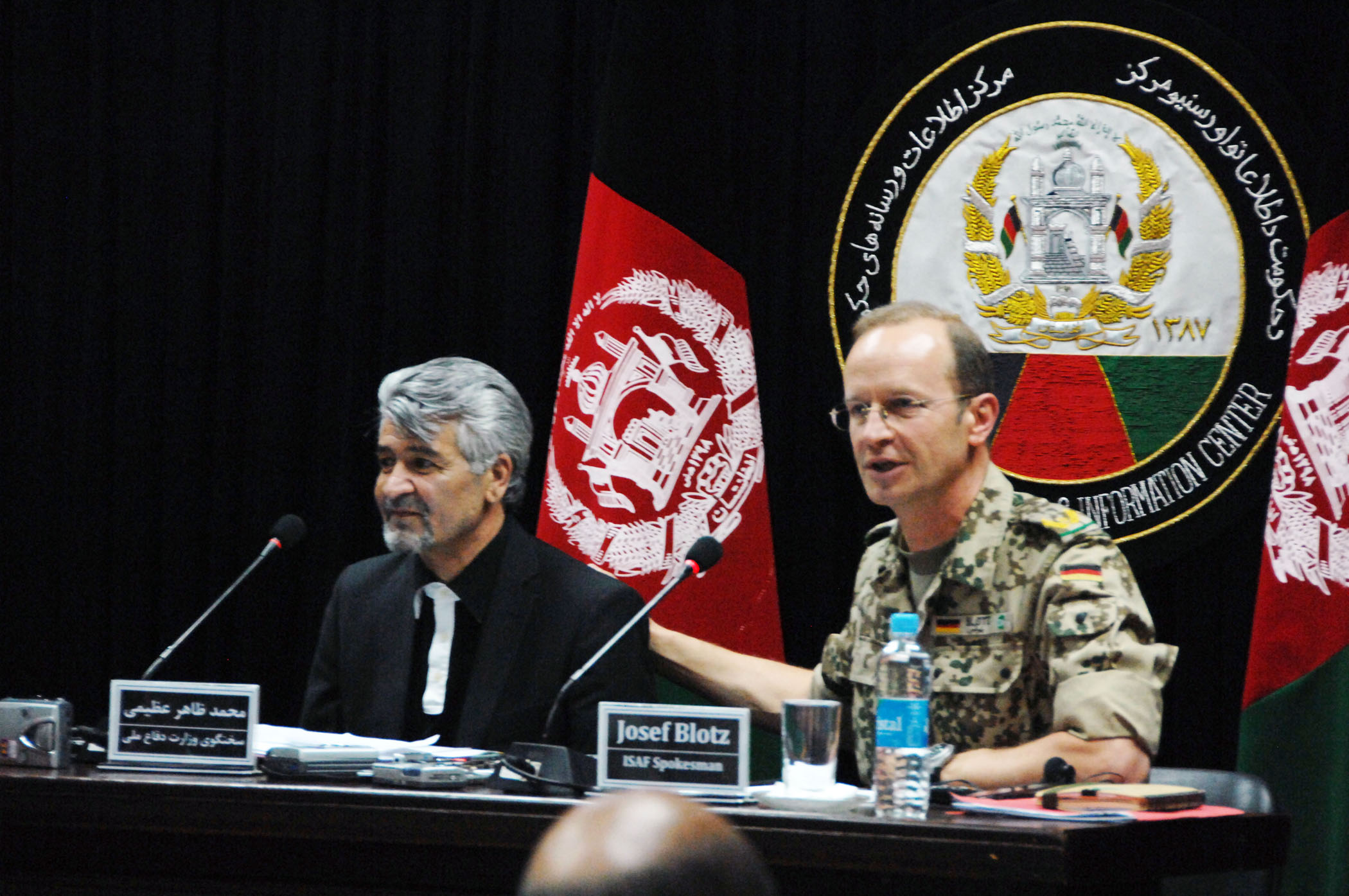 KABUL, Afghanistan - German Army Brig. Gen. Josef Blotz, International Security Assistance Force spokesman, and Afghan National Army Maj. Gen. Zahir Azimi, Ministry of Defense spokesman, brief reporters on security within Kabul July 7, 2010, at the Goverment Media and Information Center here. (ISAF photo by U.S. Army Spc. Lester B. Colley)